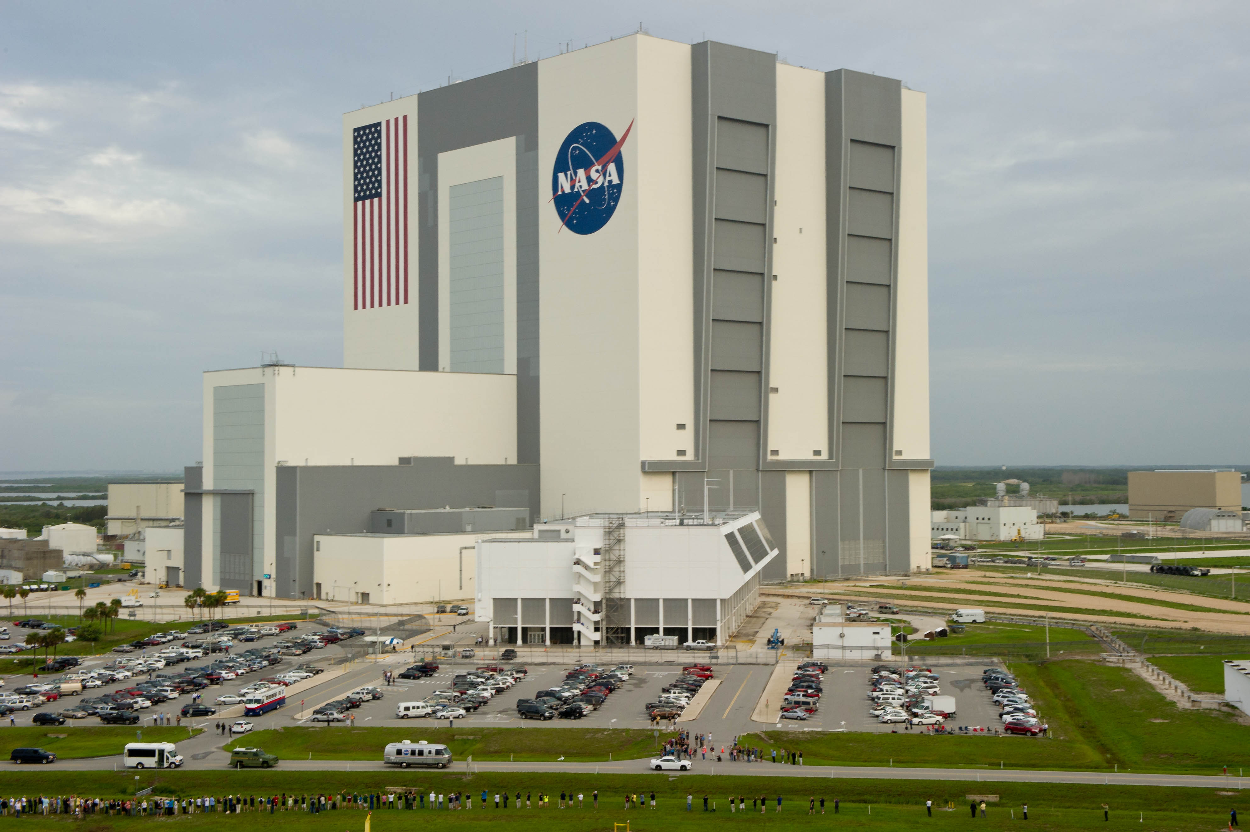 The Astrovan carrying the STS-135 crew; Chris Furgeson, commander, Doug Hurley, pilot, and mission specialists Rex Walheim and Sandy Mangus, rolls past the Vehicle Assembly Building (VAB) and Launch Control Center (LCC), on its way to launch pad 39a and Space Shuttle Atlantis, Friday, July 8, 2011, at Kennedy Space Center in Cape Canaveral, Florida.